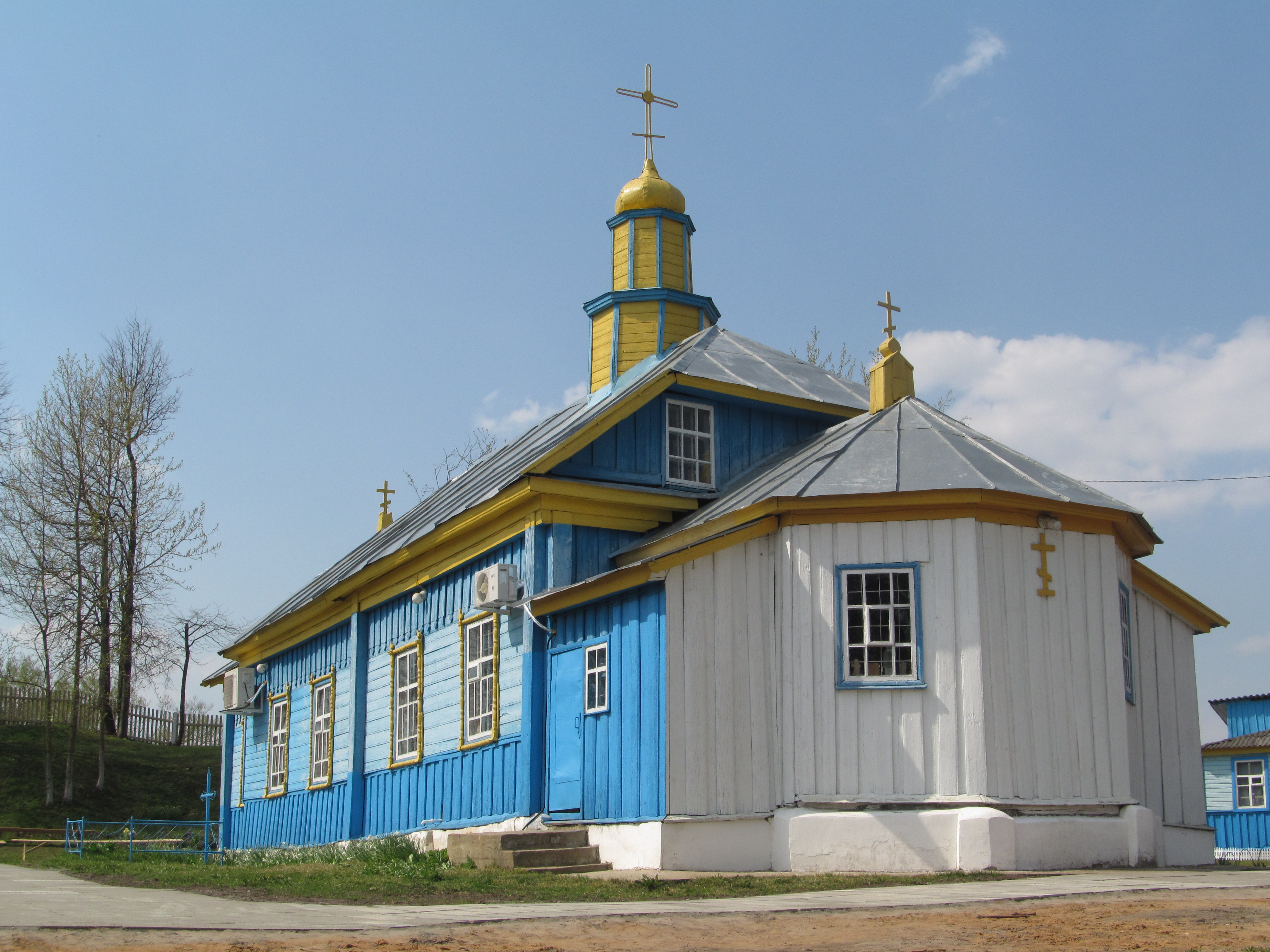 Saint Nicholas churches in Krichev, Belarus This is a photo of Belarusian heritage monument. Reference number: 513Г000482 ( WLM)